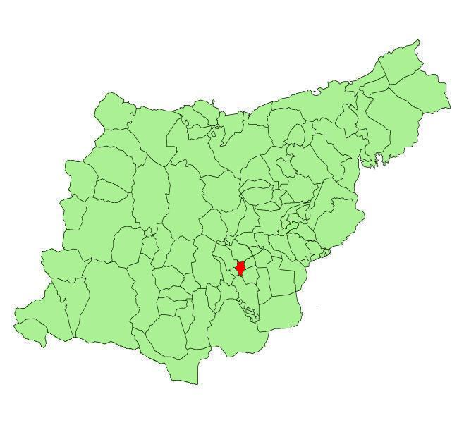 Altzaga municipality in the province of Guipuzcoa